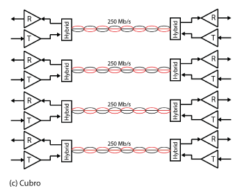 Explains the physically connection on Gbit Ethernet